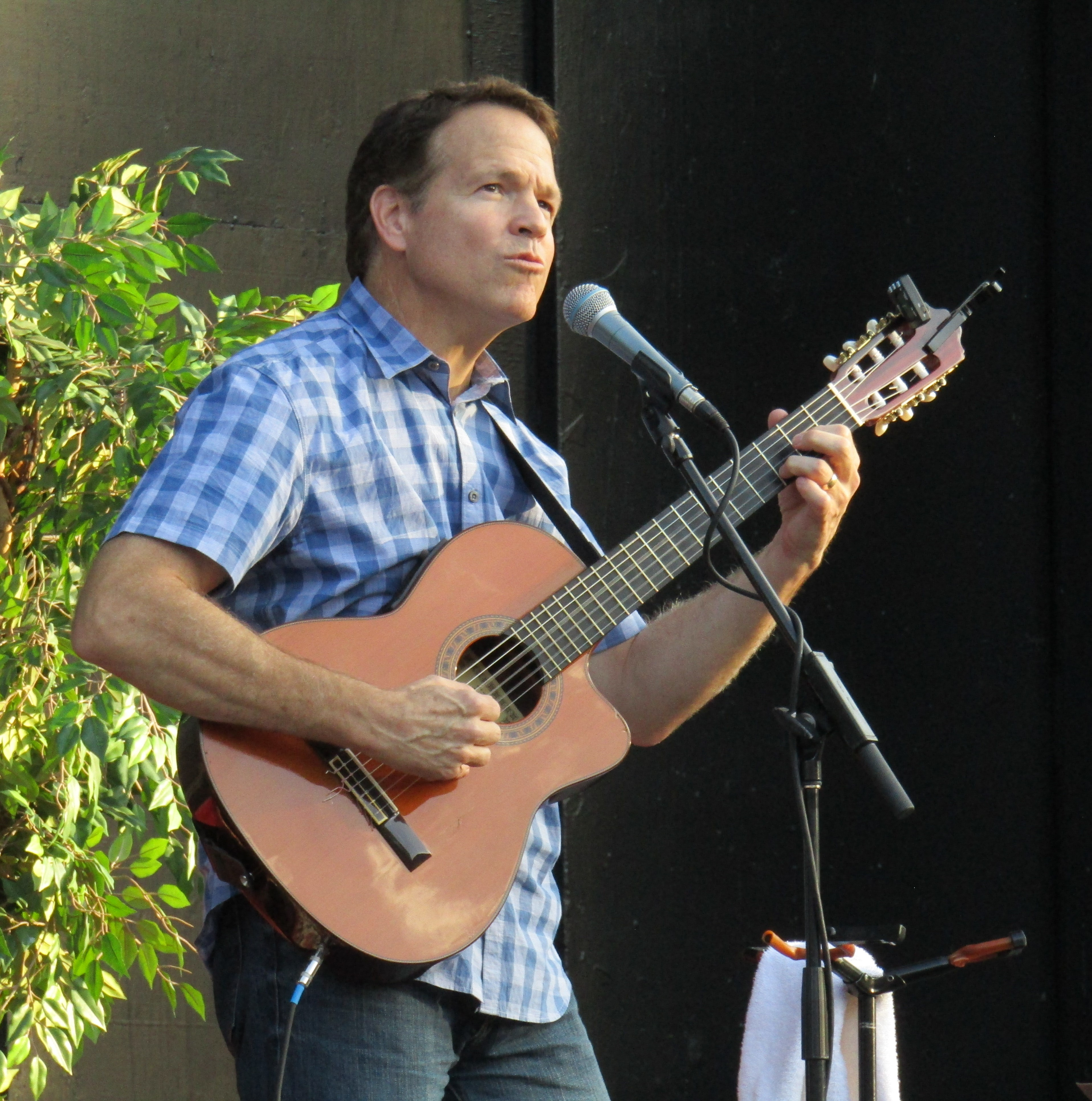 Kenneth Cope performing at the SCERA Shell Outdoor Theatre.